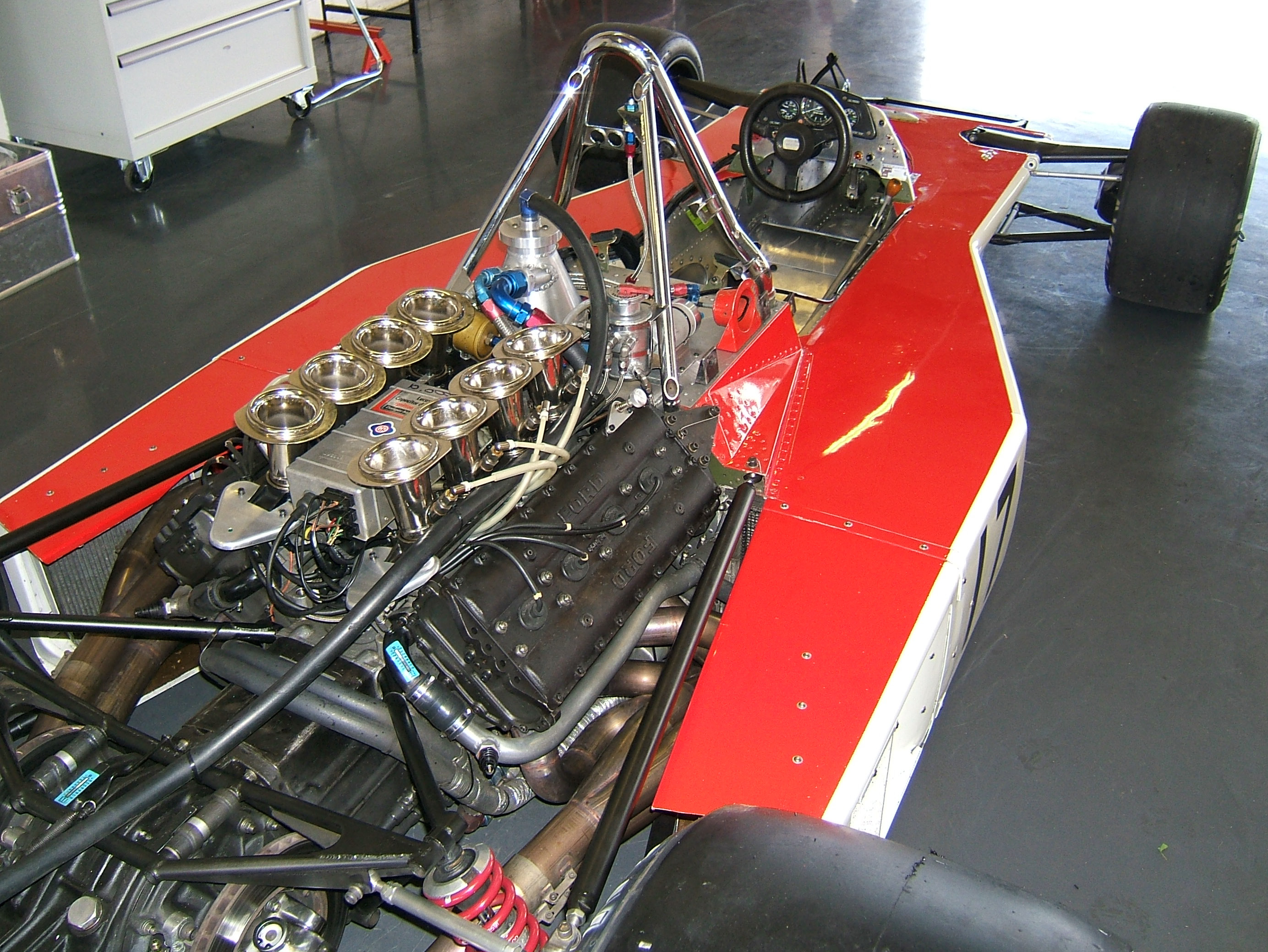 A McLaren M23 with most of its bodywork removed, displaying a particularly new-looking Cosworth DFV motor. Photographed in the pit garages at Silverstone Circuit during the Silverstone Classic race meeting, July 2007.